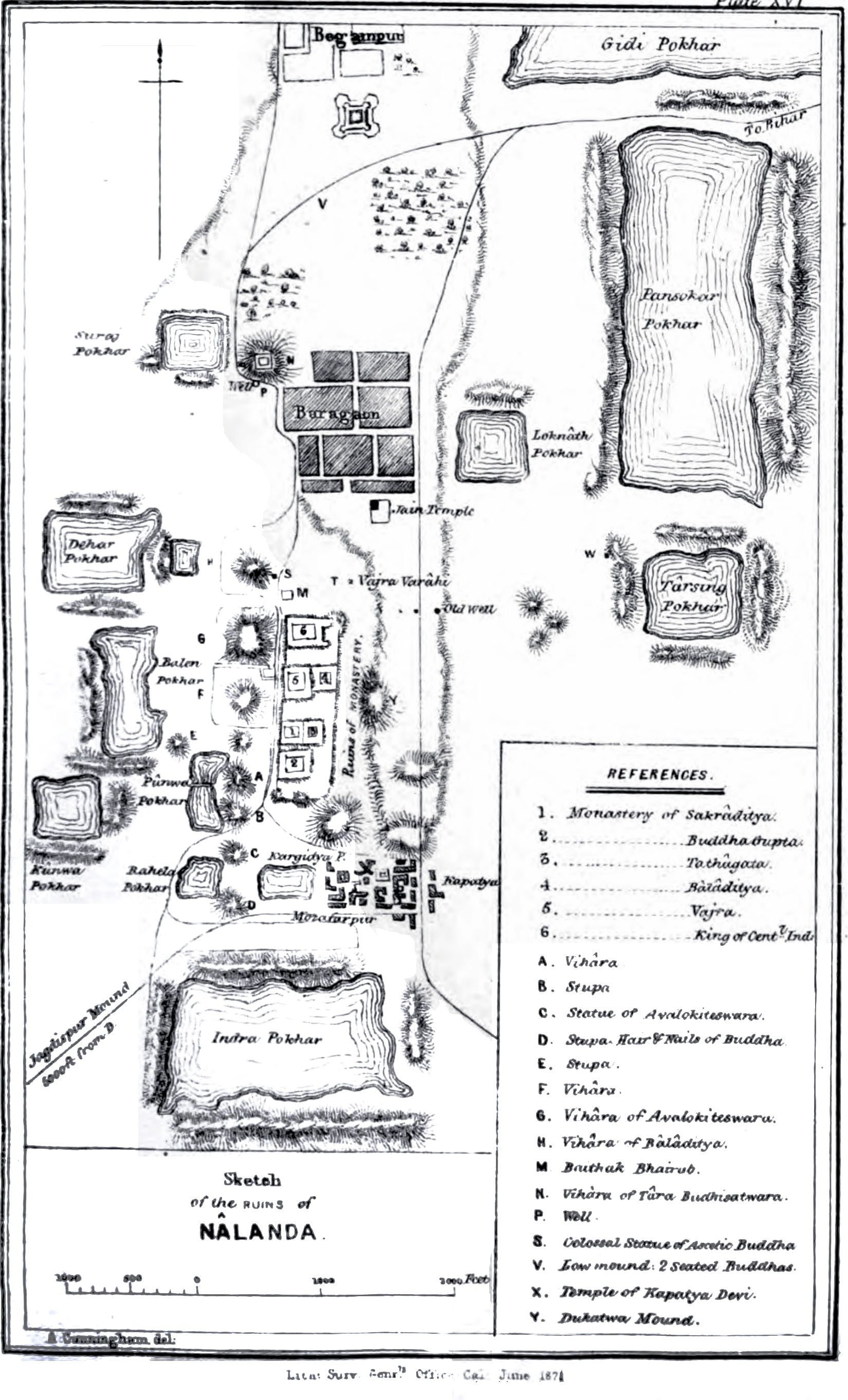 An 1861-62 map of Nalanda and its environs from Alexander Cunningham's 1871 collection, Four Reports Made During the Years, 1862-63-64-65. This image has been touched up slightly.